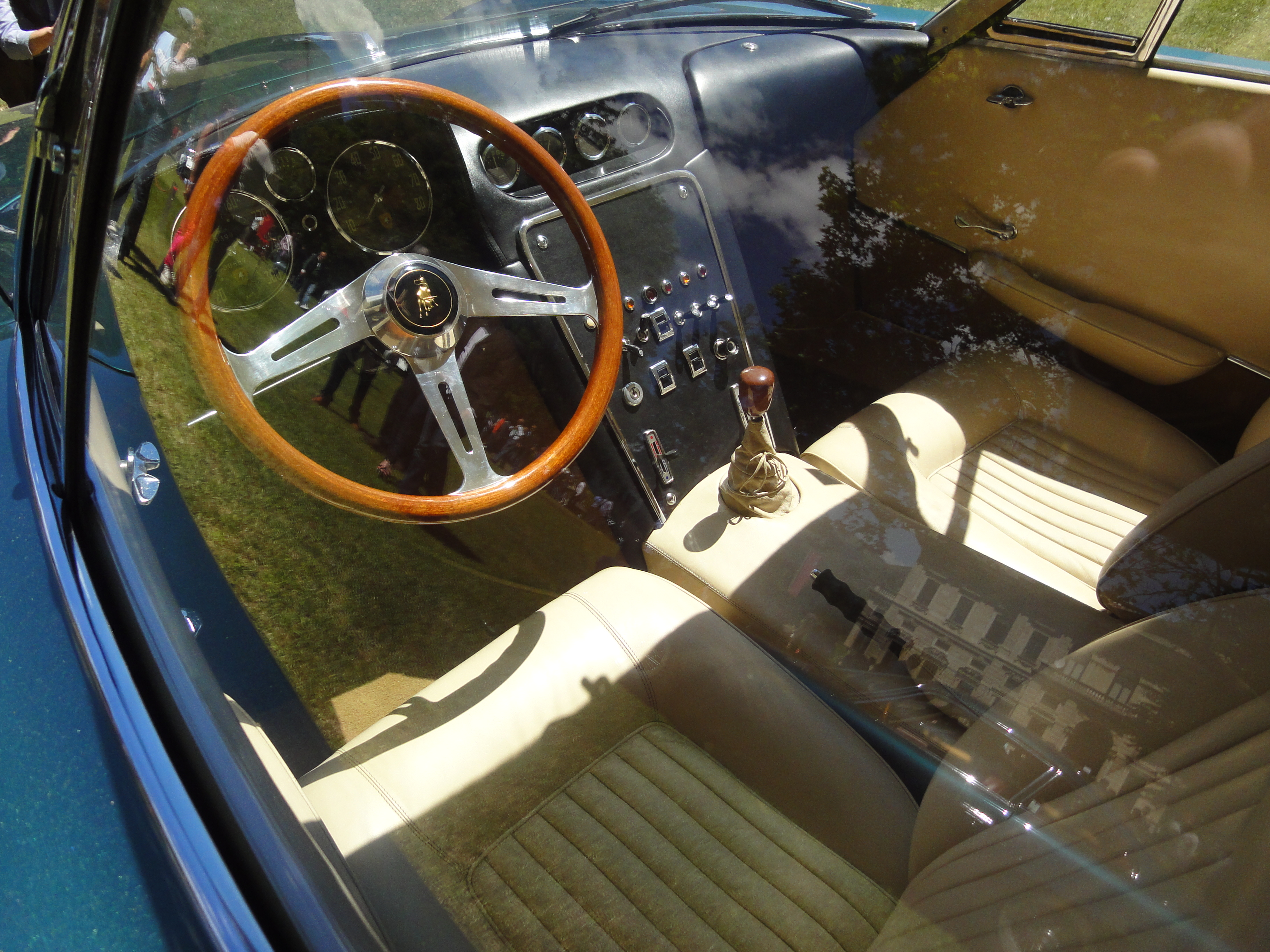 The 1963 Lamborghini 350 GTV (only one made) interior. At the Concorso d'eleganza Villa d'Este in Italy on 26 May 2013.